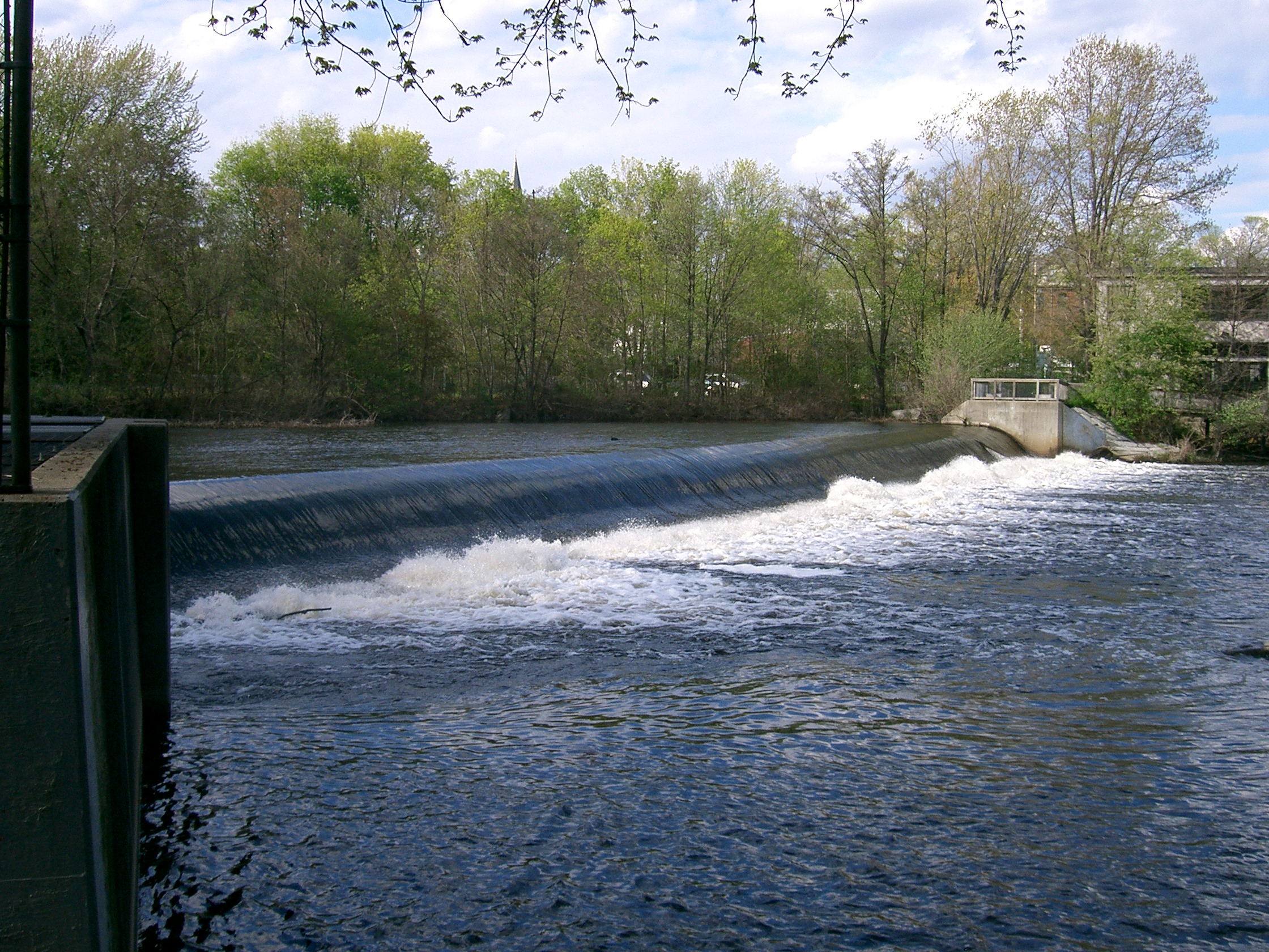 Watertown Dam, Watertown, Middlesex County, Massachusetts, USA taken from the south bank of the Charles River looking north east.